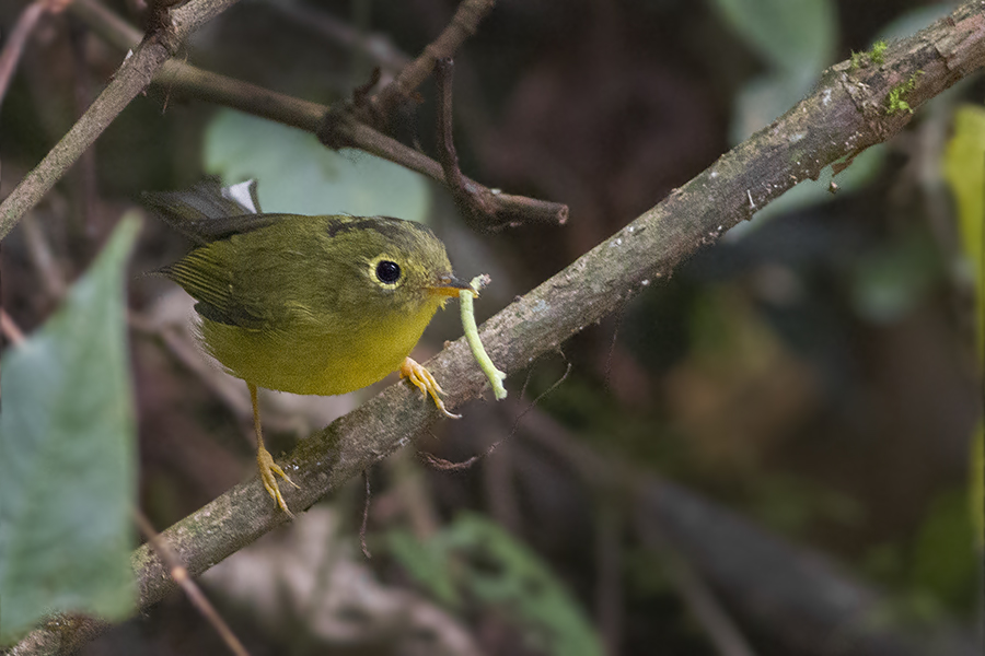 The species Whistler's Warbler had been photographed from Khangchendzonga National park during the birding trip of GoingWild in West Sikkim, India on 30.10.2015.